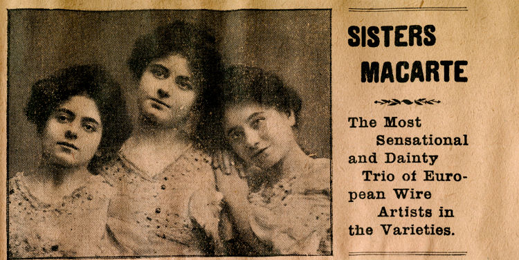 Ad for the trapeze and strongwoman act the Sisters Macarte (c1906)